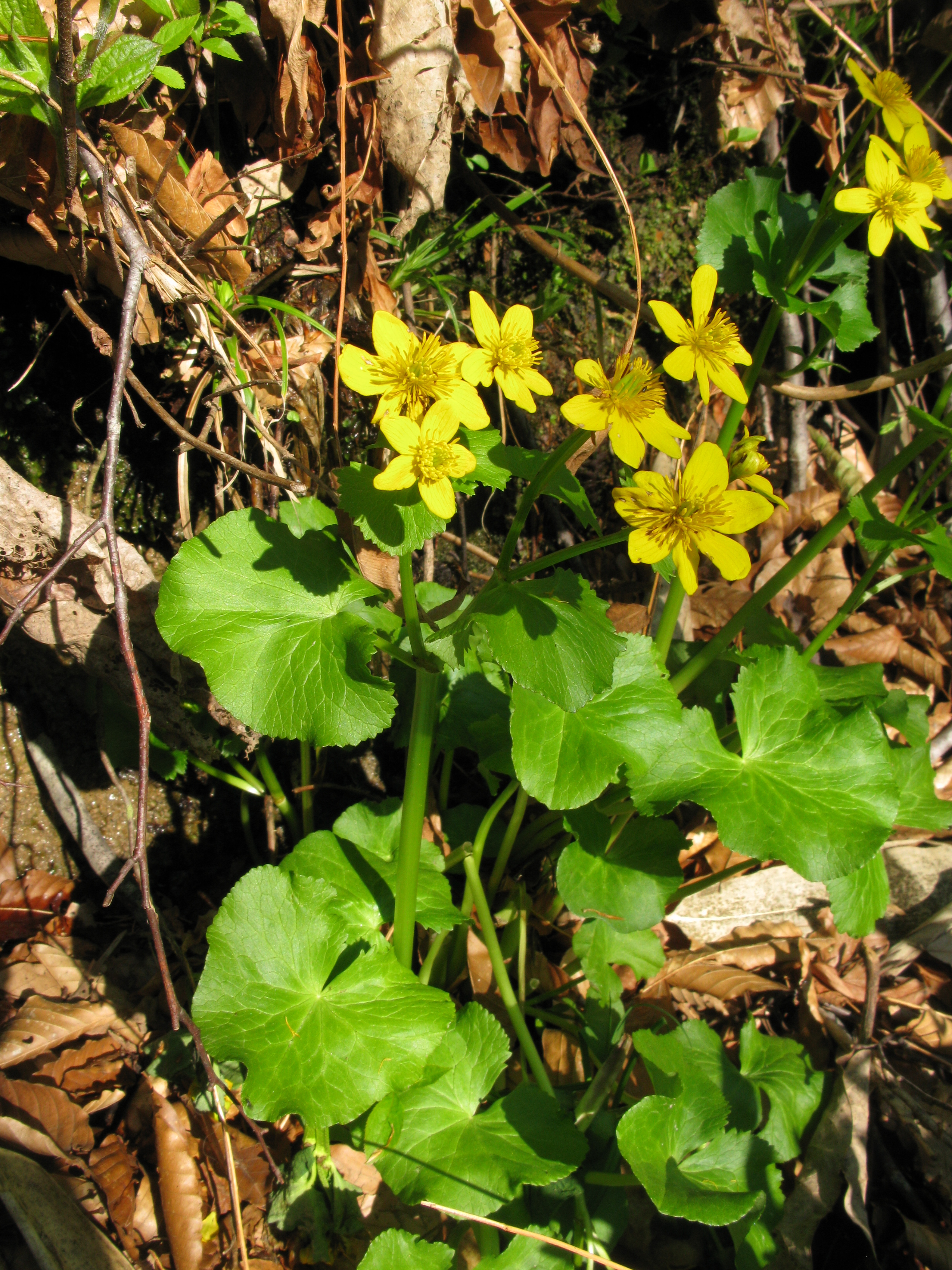 Caltha palustris var. nipponica, Aizu area, Fukushima pref., Japan